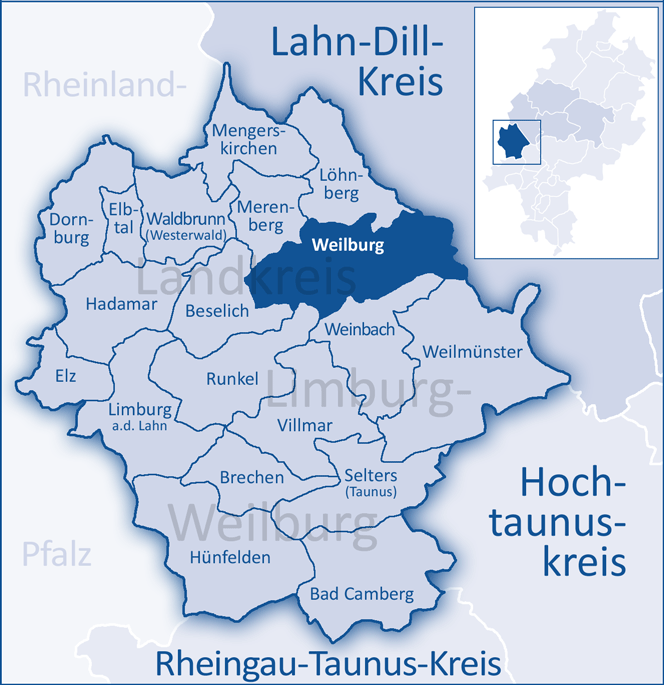 The map shows a district in the area of Limburg-Weilburg